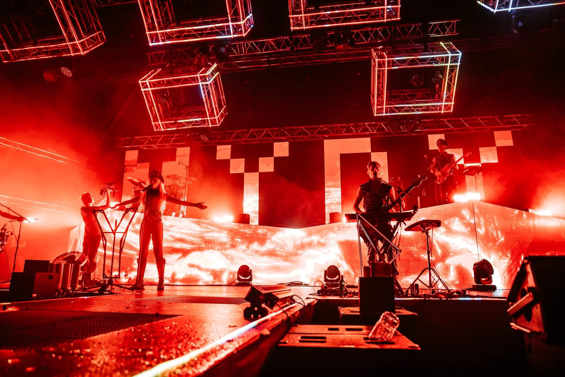 MYDY’s show in Forum Karlin, Prague, on 22nd November 2019, release of album Numbers